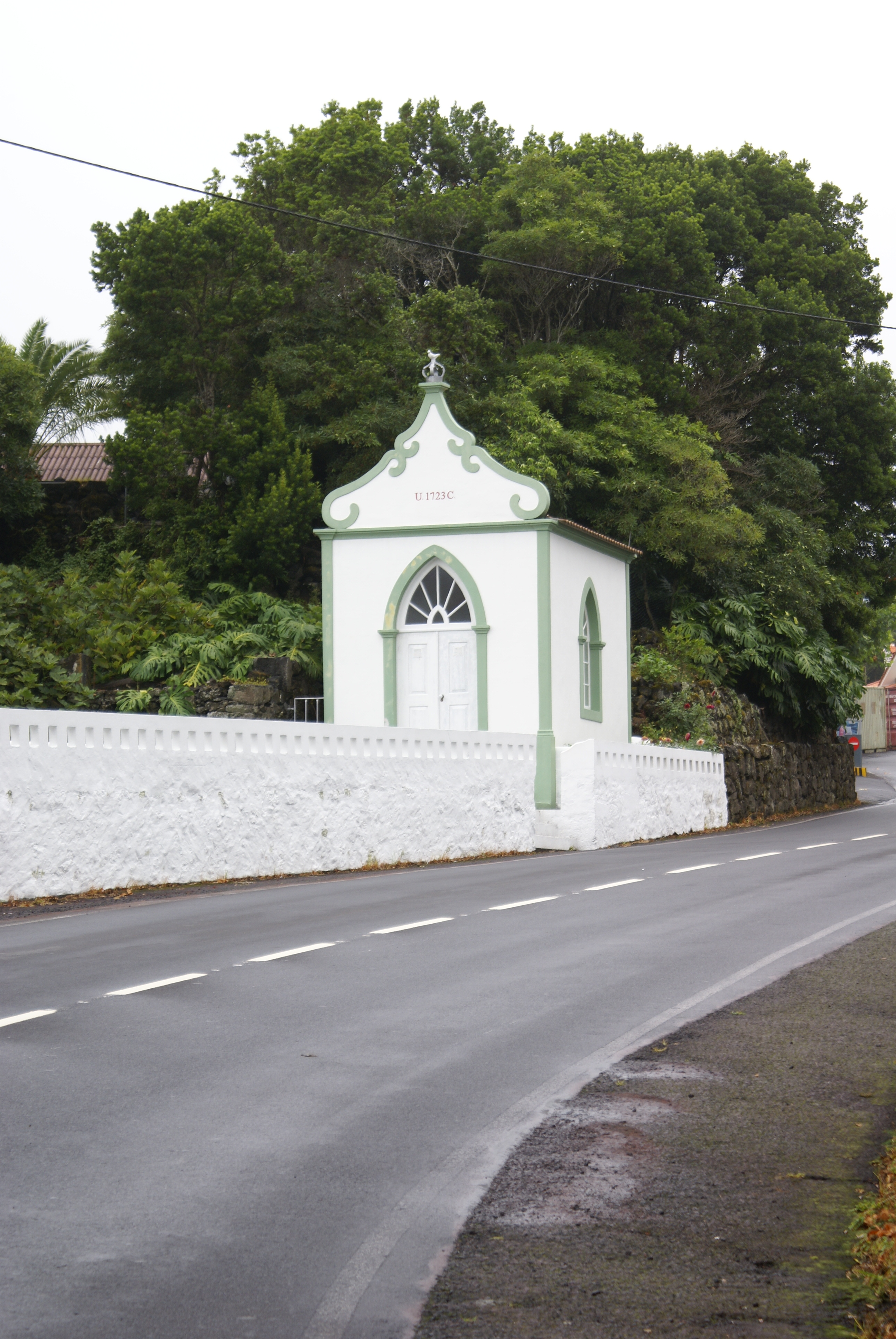 Império do Espírito Santo da Silveira, concelho das Lajes do Pico, ilha do Pico, Açores, Portugal